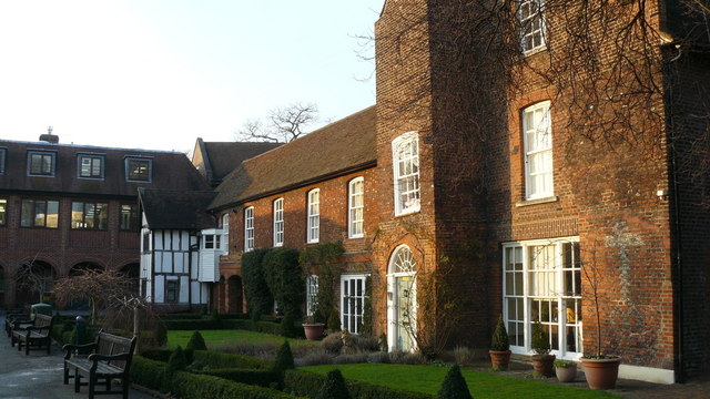 This building, now a school, was one of the five Palaces successively or concurrently owned by the Archbishop of Canterbury before the Dissolution, the others being Lambeth (still today with some with the church's main offices and as a meeting place for bishops), Otford, Maidstone and Charing.